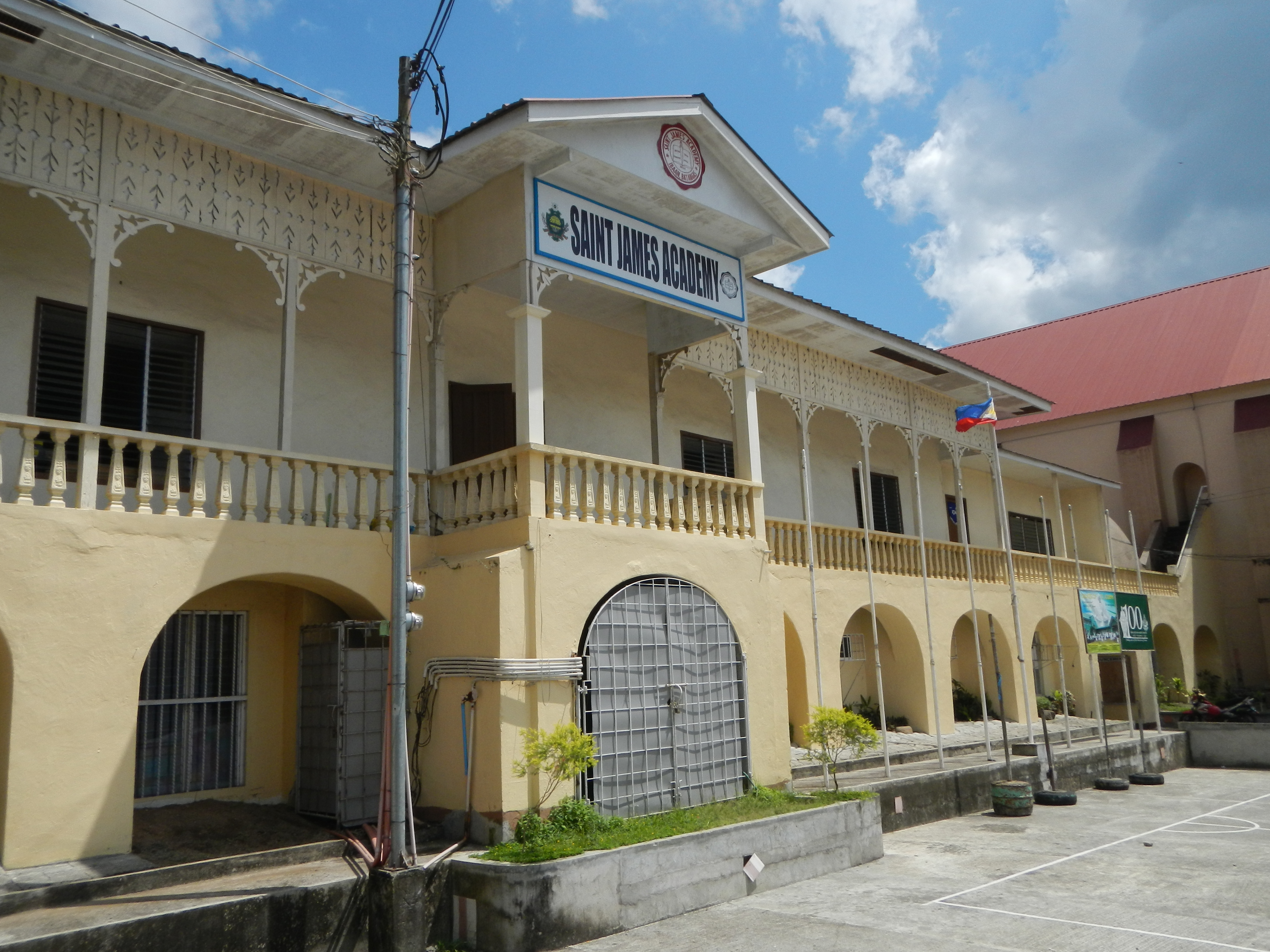 Upload Wizard photos of - Barangay Poblacion, Ibaan, Centro, downtown and in front of Town Hall, road, the - PH-40-0012 Saint James the Greater Parish Church of Ibaan (is part of the official list of Cultural Properties of the Philippines in CALABARZON[1] - [2] construction of the present St. James the Greater Parish Church was started in 1854 by the Augustinians and completed 1869, located at Lipa-Ibaan Rd. 13°49′08″N 121°07′58″E; and Saint James Academy of Ibaan, in front of the Ibaan Municipal Hall Ibaan, Batangas [3] (a fourth class municipality in the Province of Batangas, Philippines; latest census, population of 45,790 people in 10,166 households; has a land area of 6,796 hectares or 26.24 sq mi at an altitude of 124 metres or 407 ft above sea level).